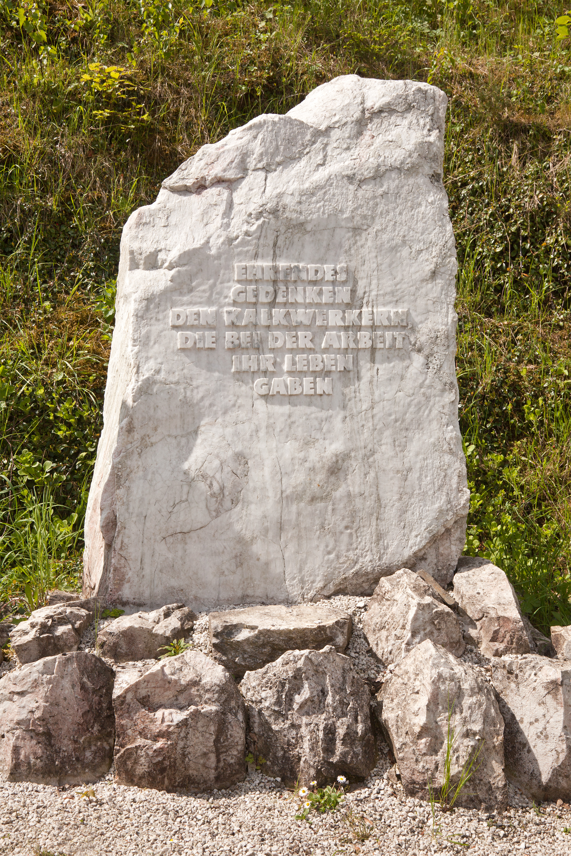 Lengefeld Lime Works: Monuments to the workers who died there at work